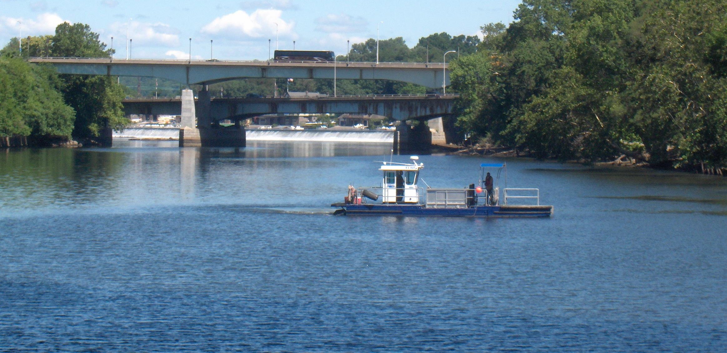 Top bridge is the Spring Garden Street bridge, bottom bridge is the West River Drive Bridge, with the Fairmount Dam further upstream, and the Philadelphia Water Department's river cleaning work boat R.E. Roy in the foreground.